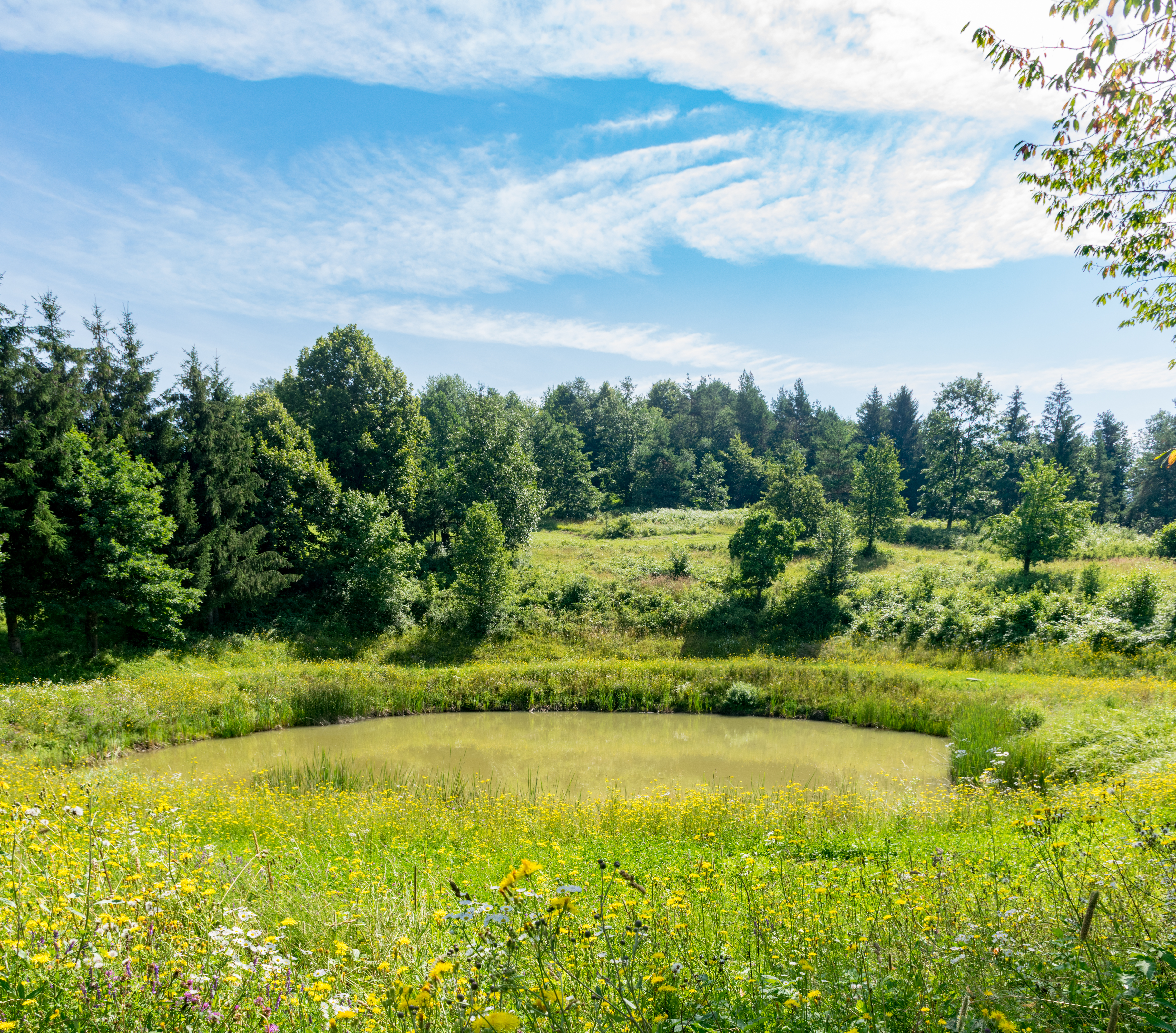 This pond is located near Stari trg (Eng: Old Market) in the municipality of Črnomelj in Bela krajina.